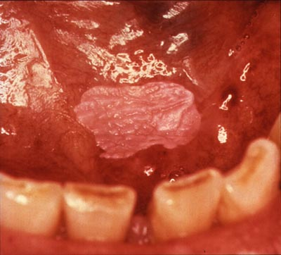 These images are part of the 2013 publication from the NIH "Detecting Oral Cancer: A Guide for Health Care Professionals". Available on the 15/7/14 at Homogenous leukoplakia in the floor of the mouth in a smoker. Biopsy showed hyperkeratosis.